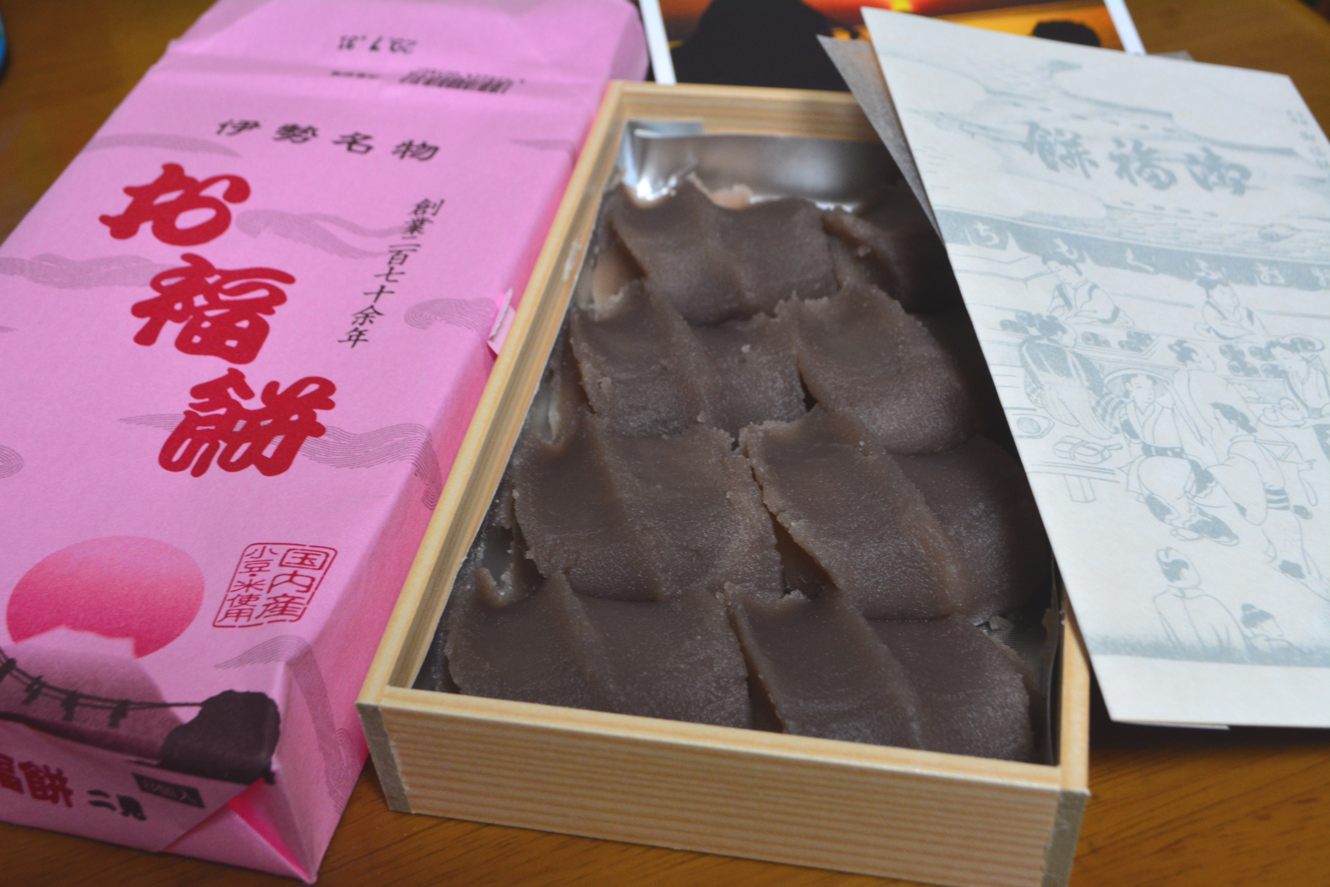 Ofukumochi sweets made with mochi and bean paste. Hutami-cho,Ise city,Japan.